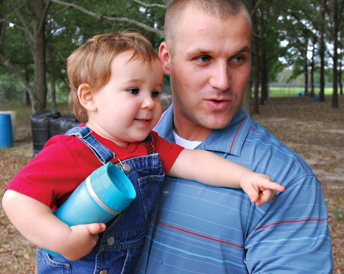 Two-year-old Khonnor Dorminey shouts "Sheep!" as he points out newborn lambs to his dad, Matt, on a trip Sunday to Marengo Creek Farms.